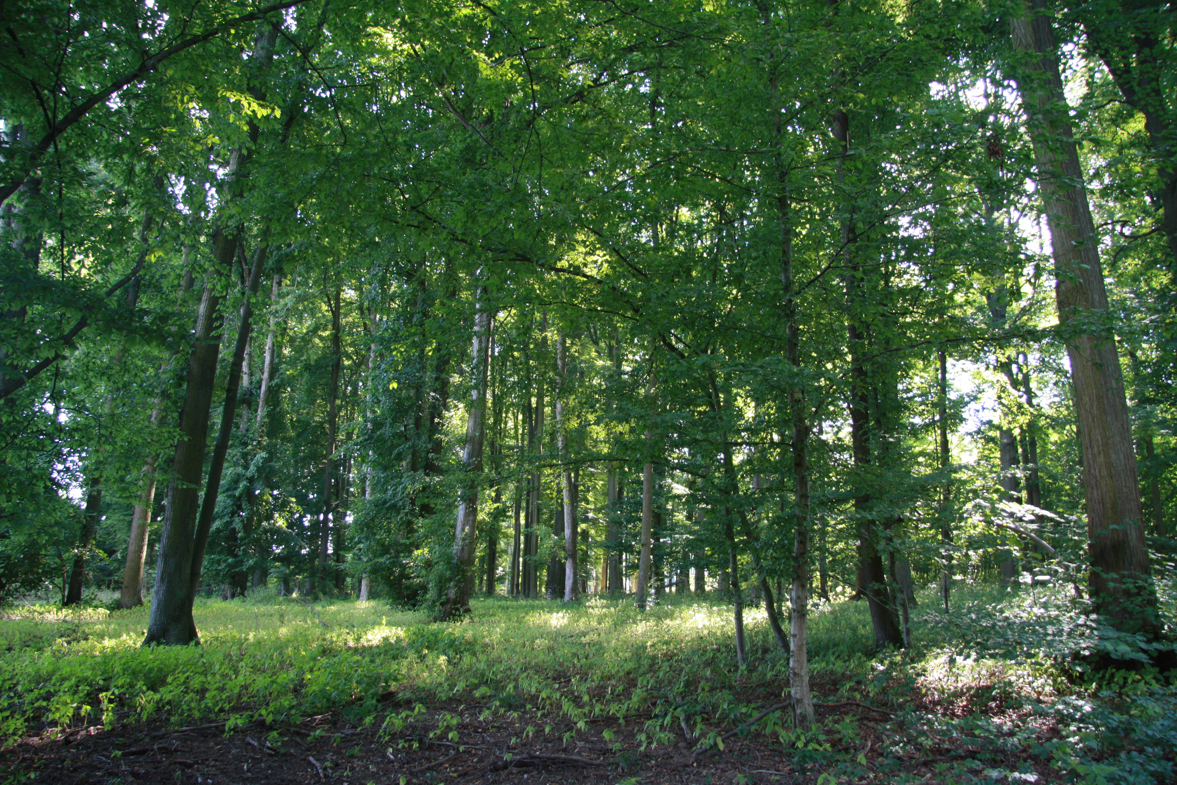 Fagus sylvatica trees and grass in natural monument Černá blata, Třebíč District.